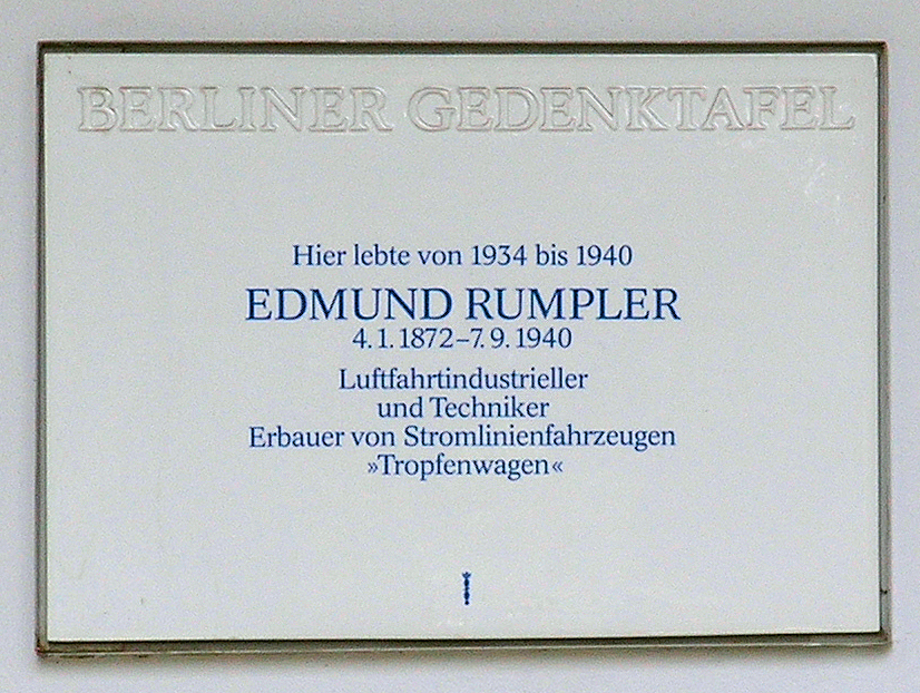 Berlin memorial plaque, Elias Edmund Rumpler, Dernburgstraße 9, Berlin-Charlottenburg, Germany Koordinate:52°30′10.9″N 13°17′14.3″E / 52.503028°N 13.287306°E